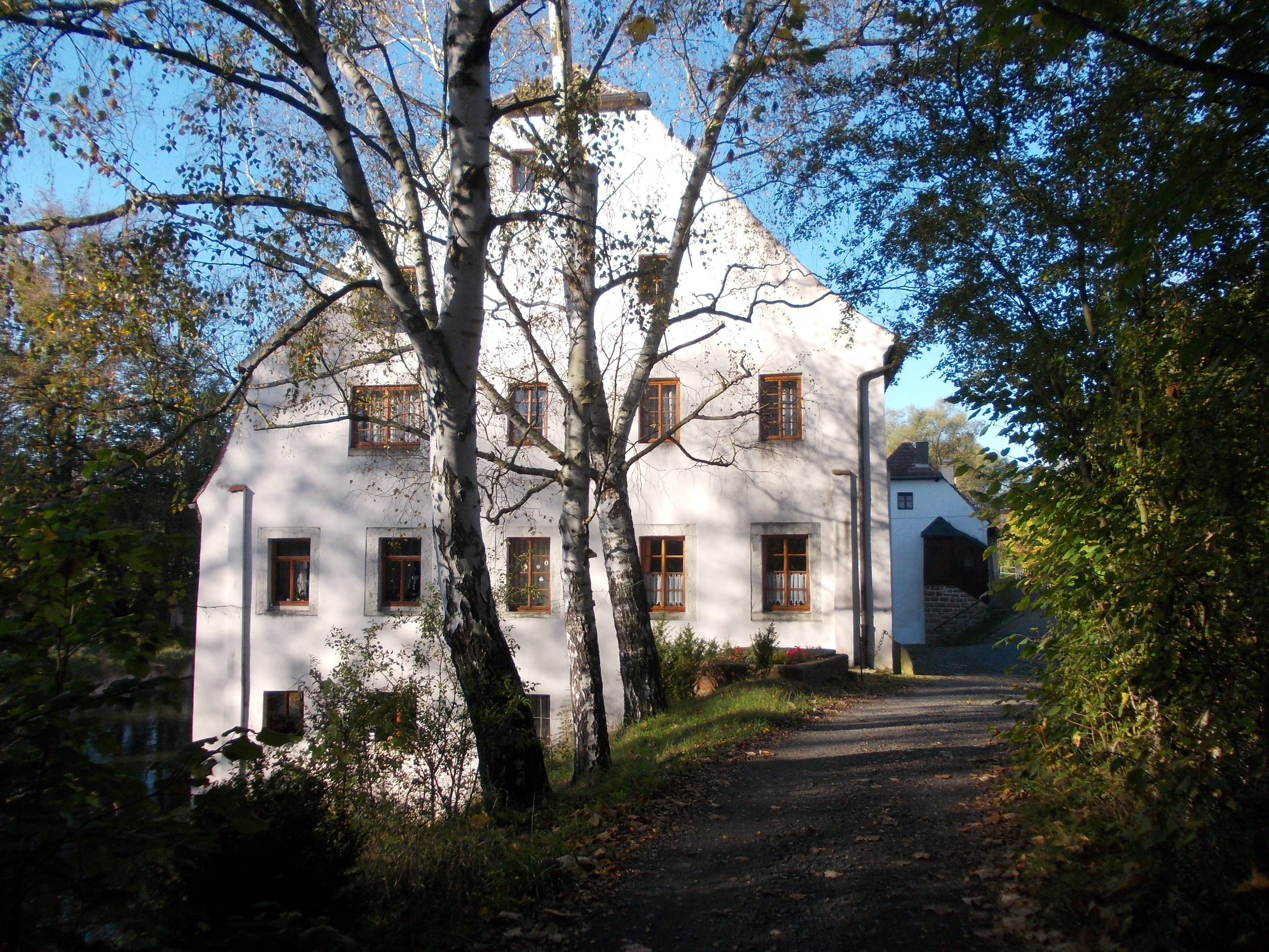 Herrenmühle, a watermill in Podebuls (Wetterzeube, district: Burgenlandkreis, Saxony-Anhalt)